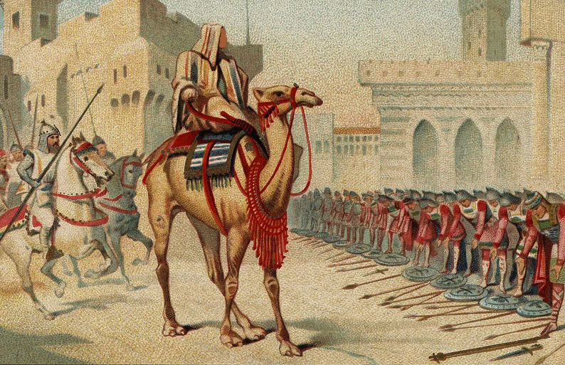 Great conquerors - Omar, the second caliph, taking possession of Jerusalem in year 638 AD (CE)